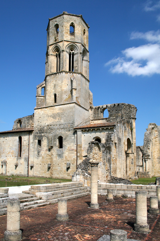 Grande-Sauve Abbey (33) the former chapter house in the foreground, behind it the abbey church